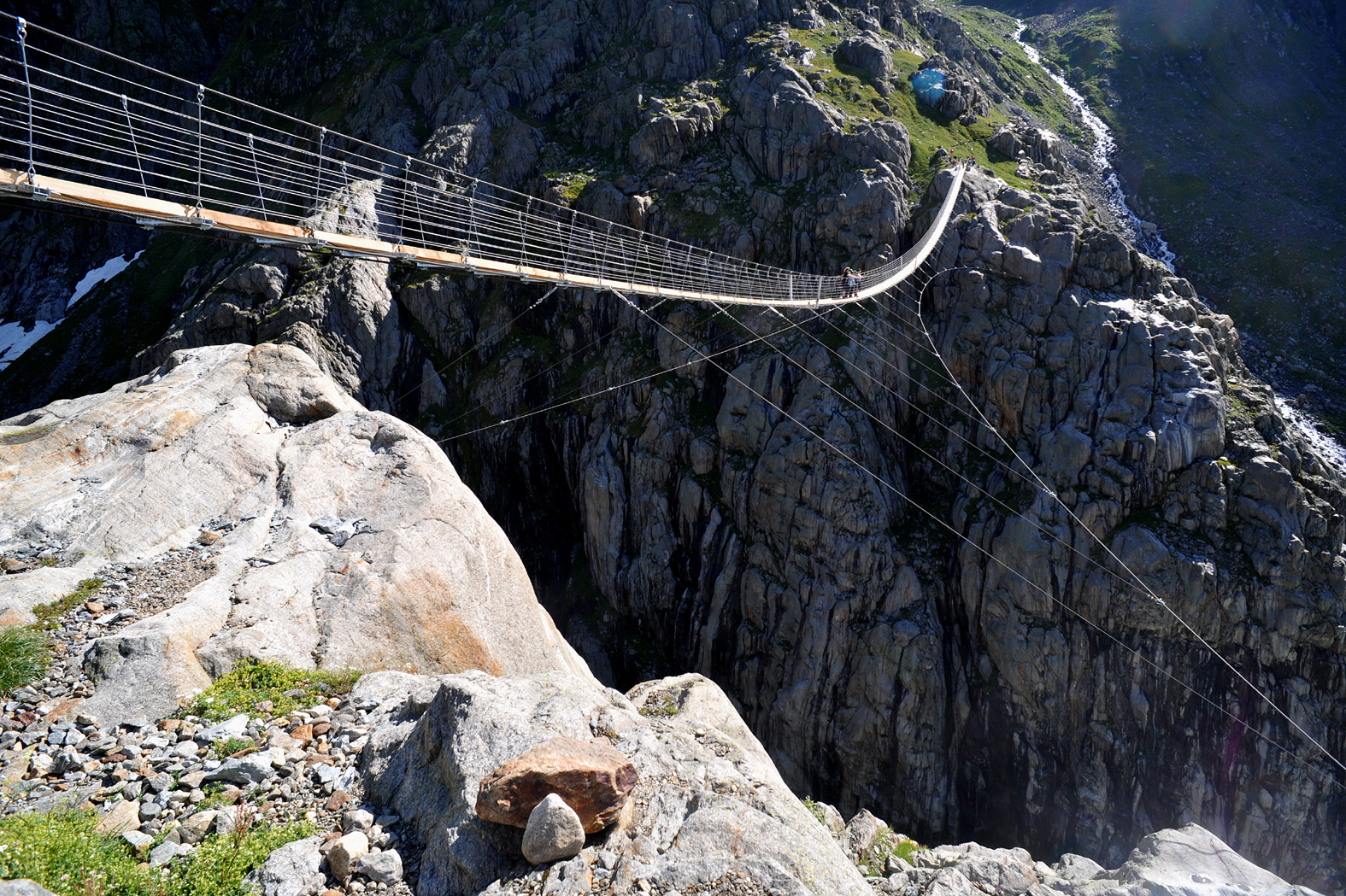 New Trift bridge, view from west; Berne, Switzerland.